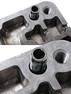 Coiled spring pins used as aligment pins in aluminum casting